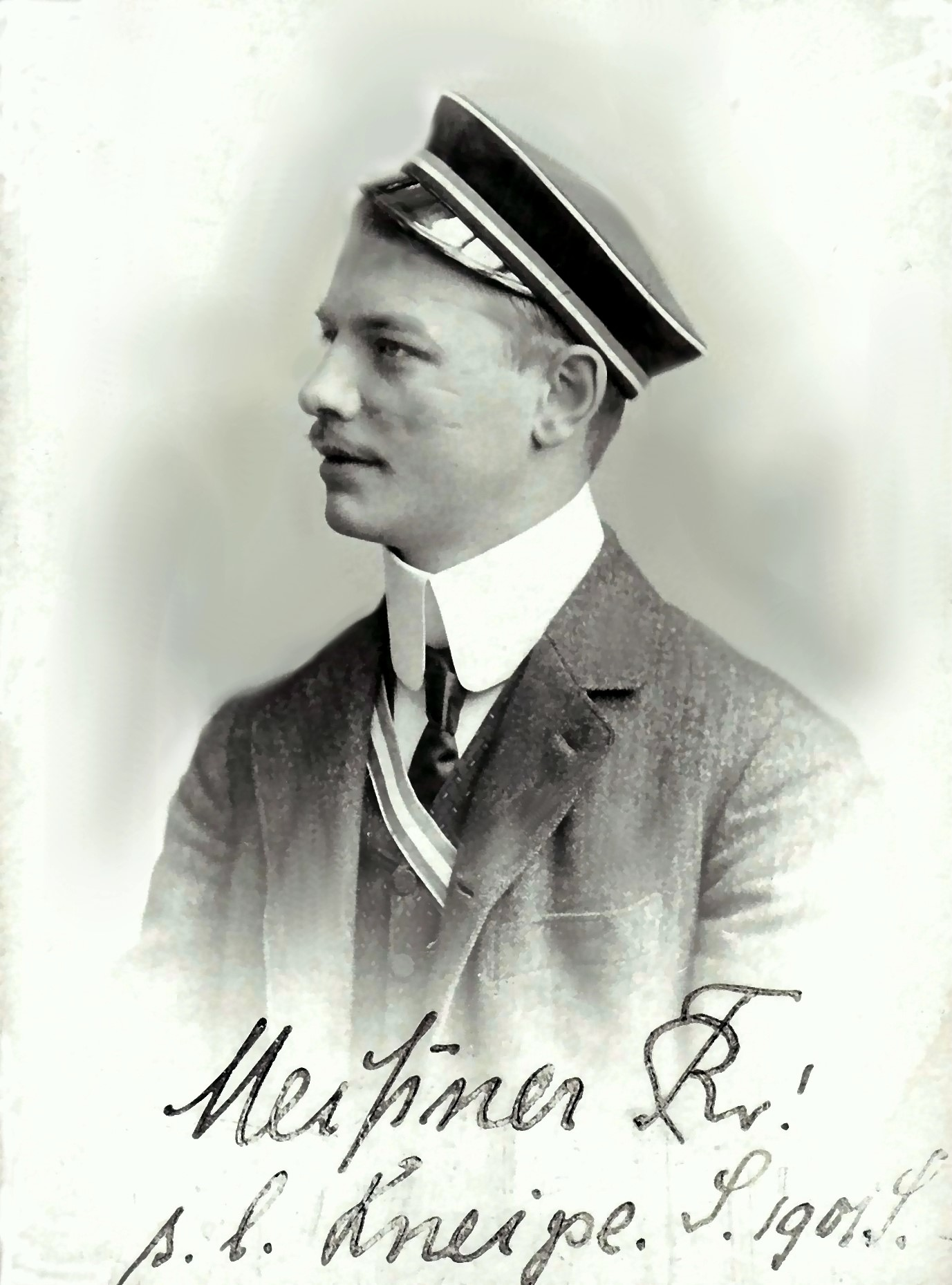 Photography of Werner Meißner